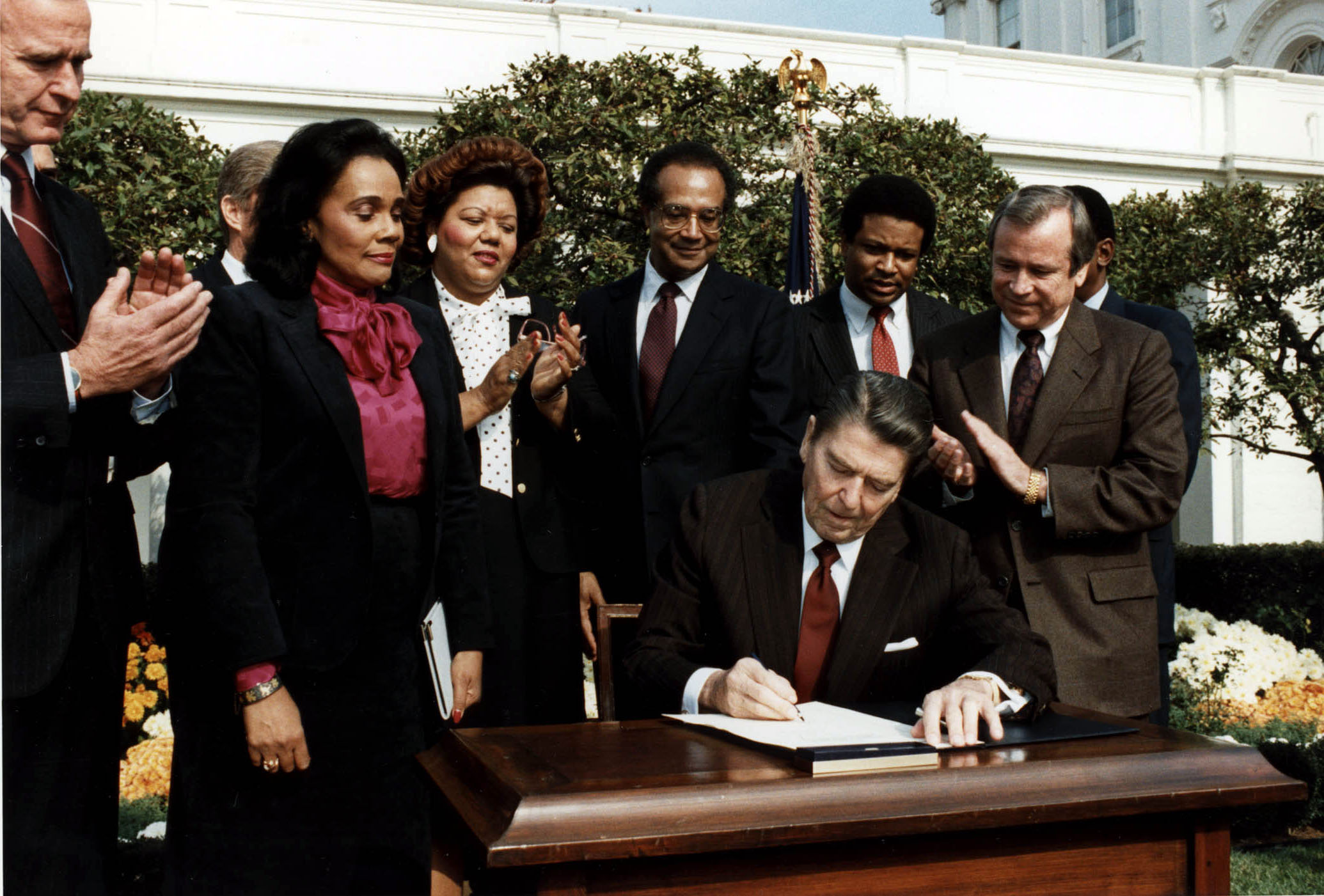 President Ronald Reagan signs the bill commemorating Martin Luther King Jr.'s birthday as a national holiday on Nov. 2, 1983 in the White House rose garden.